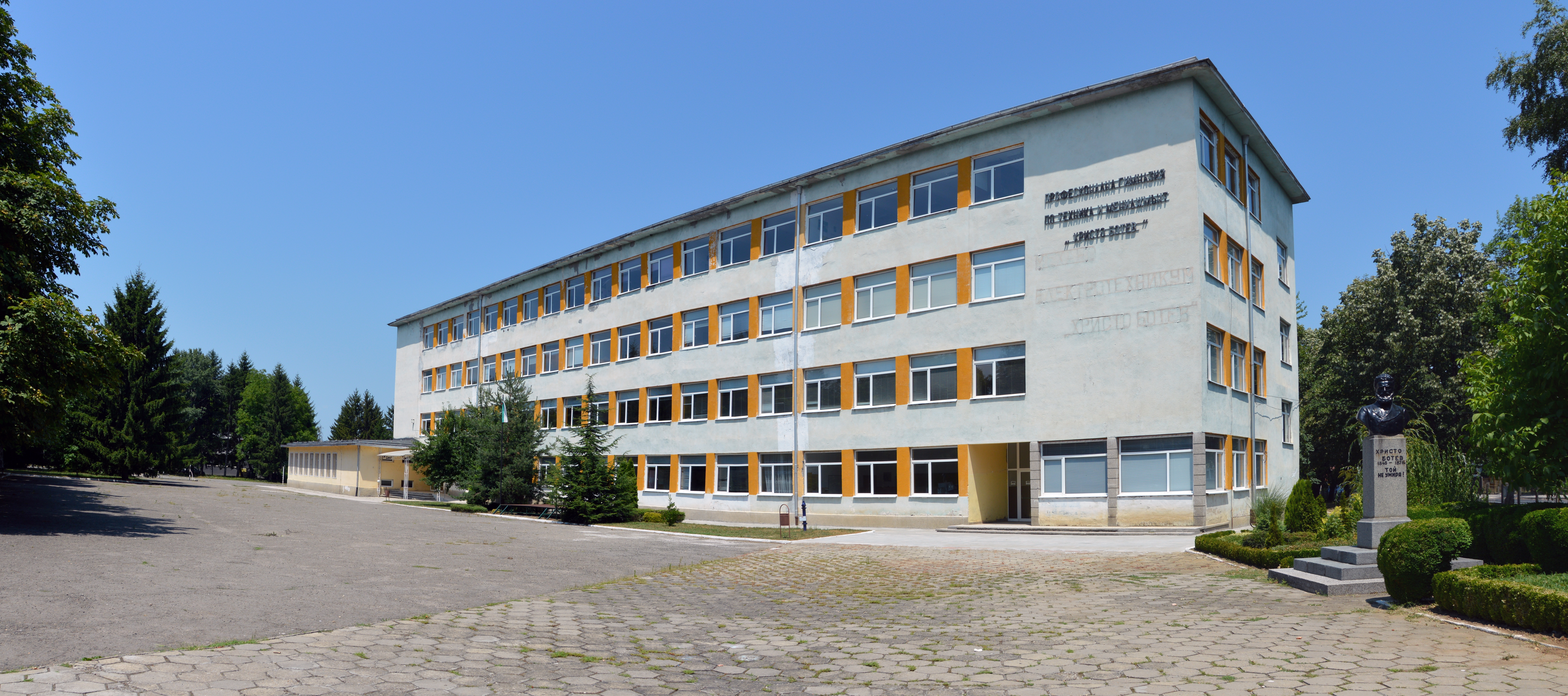 Professional Gymnasium of Technology and Management "Hristo Botev" in Botevgrad, Bulgaria.